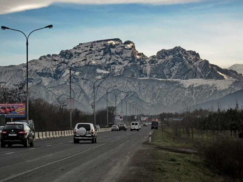 Mt Stolovaya (3008 m), view from Vladikavkaz.